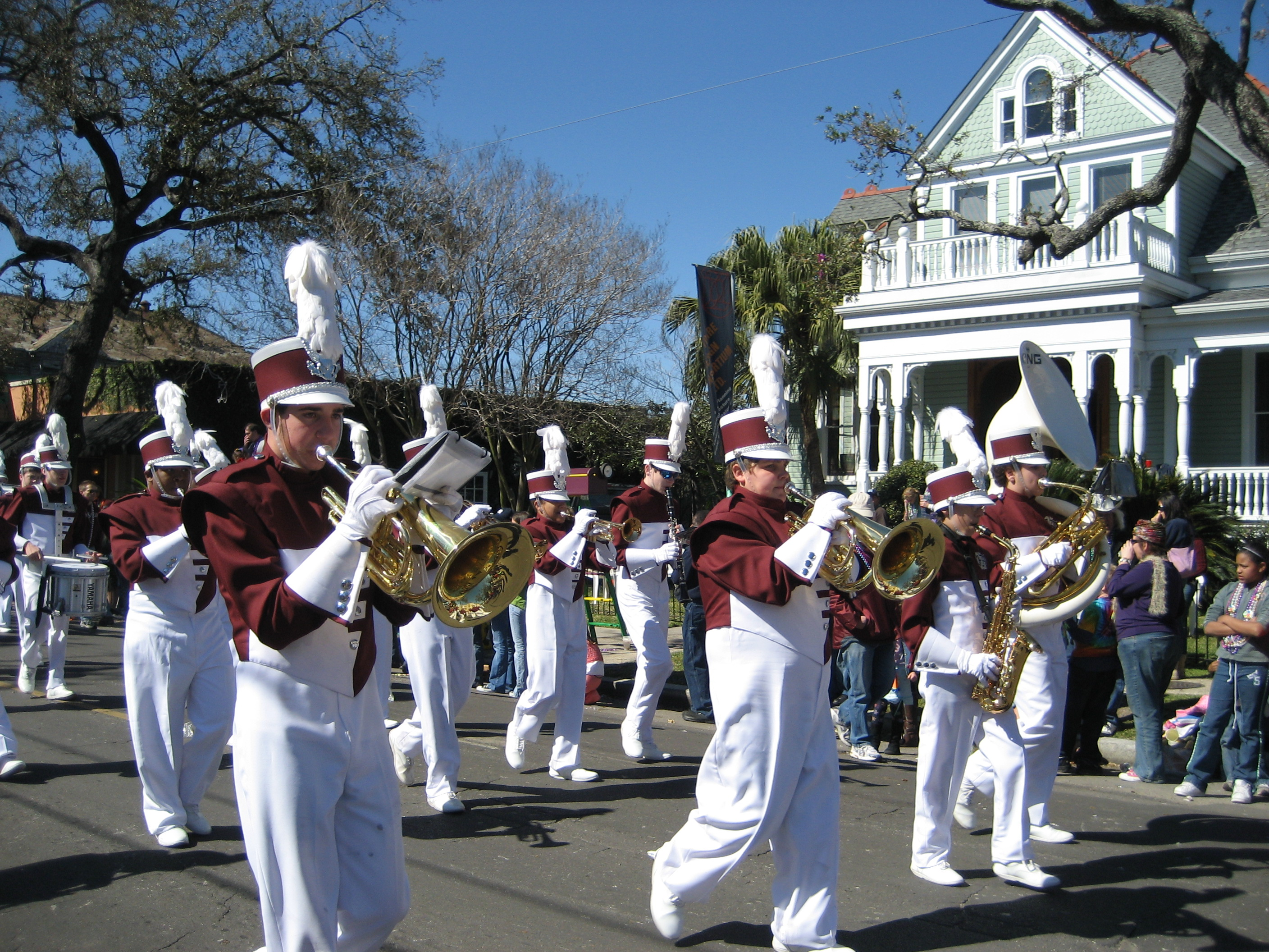 New Orleans: Krewe of Thoth Mardi Gras parade on Magazine Street. Local High School band.